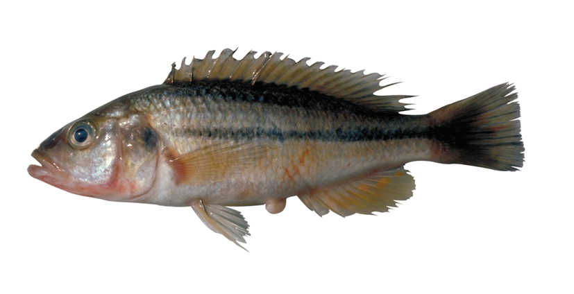 Haplochromis vonlinnei, quiescent female.